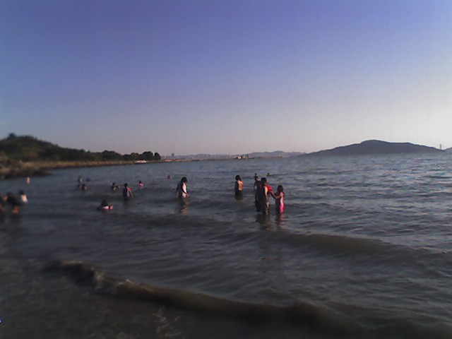 playa de keller en richmond, california, ee.uu.